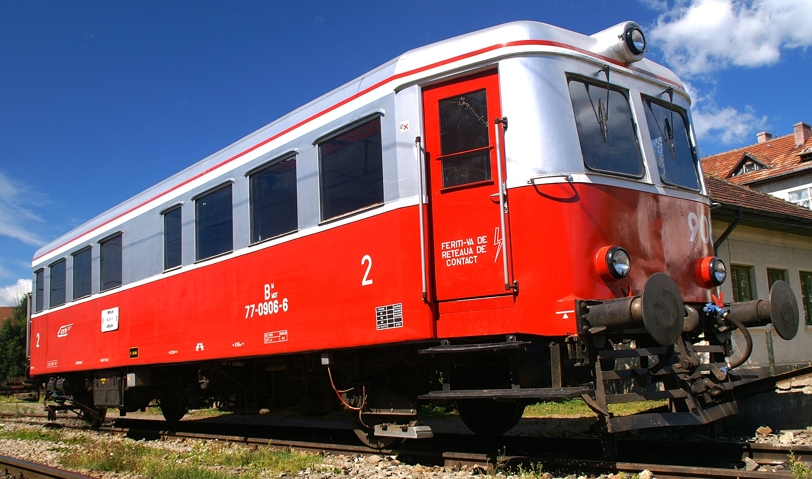 Motor coach CFR 77-0906-6, station Cimpulung Est